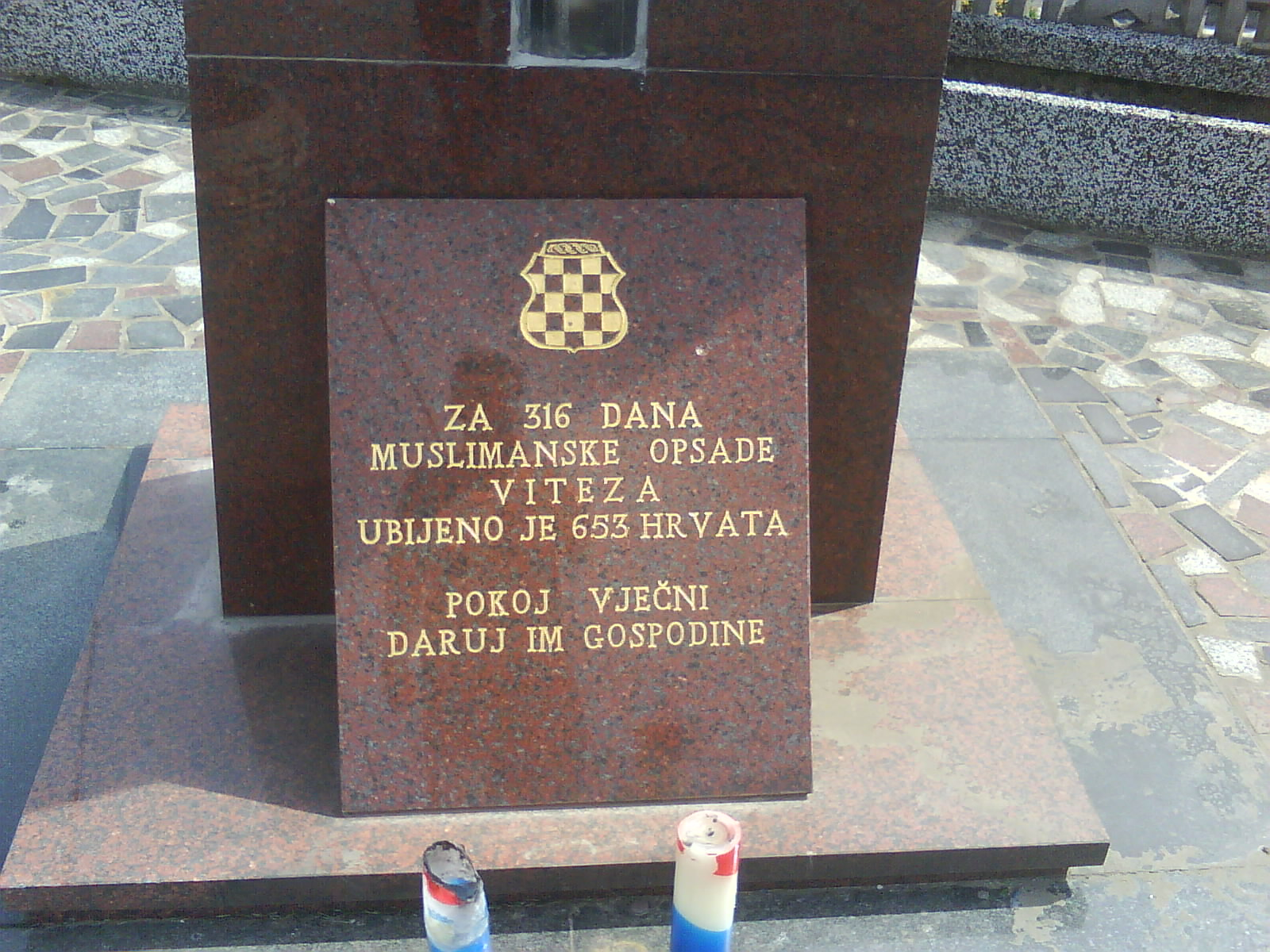 Monument in a tribute of Croats from Vitez died during siege by Muslims/Bosniaks